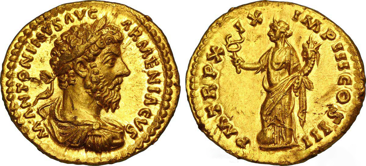 Aureus de Marc Aurèle Date : 165 Description revers : Felicitas (la Félicité) drapée debout à gauche, le pied droit posé sur un globe, tenant un caducée de la main droite tendue et une corne d’abondance de la main gauche . Description avers : Buste lauré, drapé et cuirassé de Marc Aurèle à droite, vu de trois quarts en arrière.